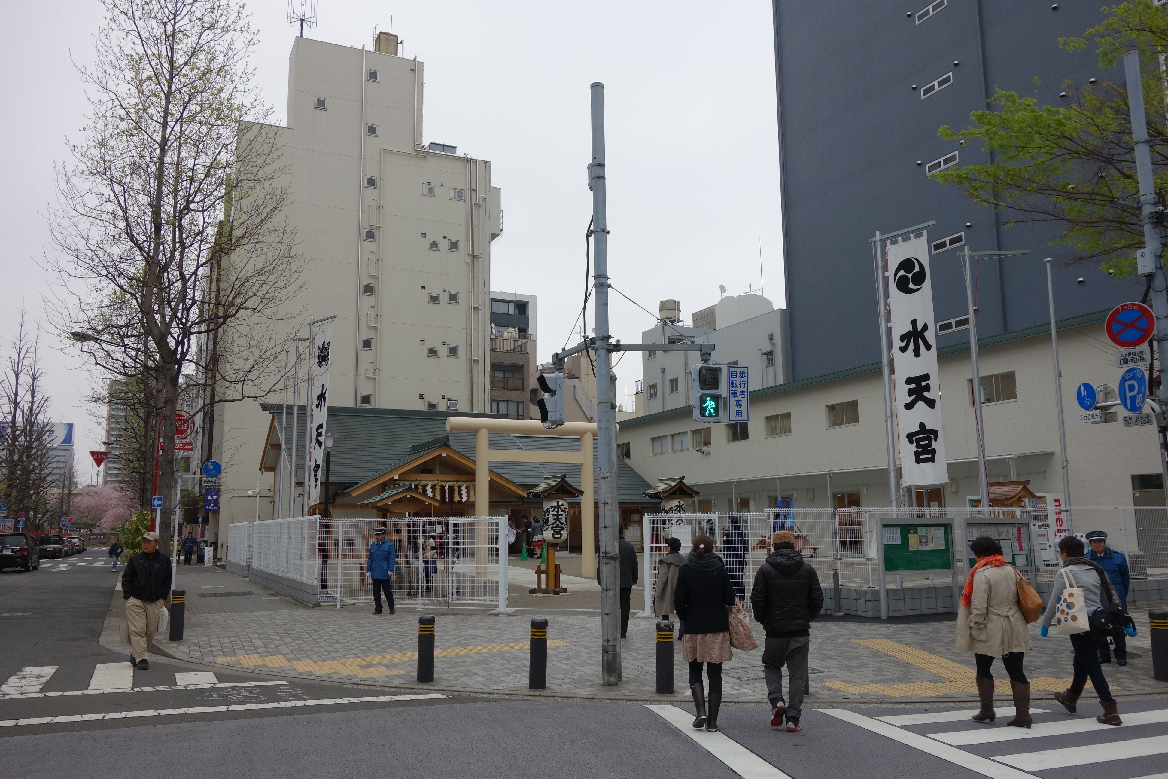 Karimiya (temporary shrine) of Suiten-gū in Chūō, Tokyo